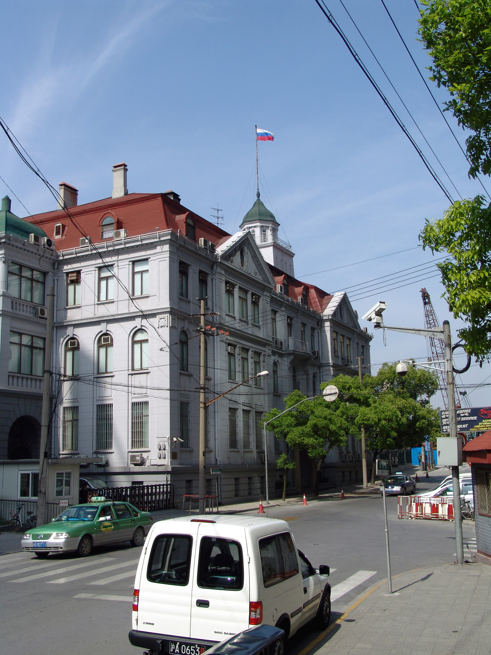 Consulate-General of Russia in Shanghai